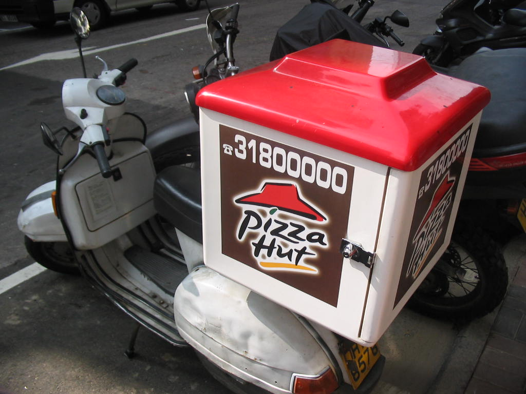 Moped used for pizza delivery in Hong Kong